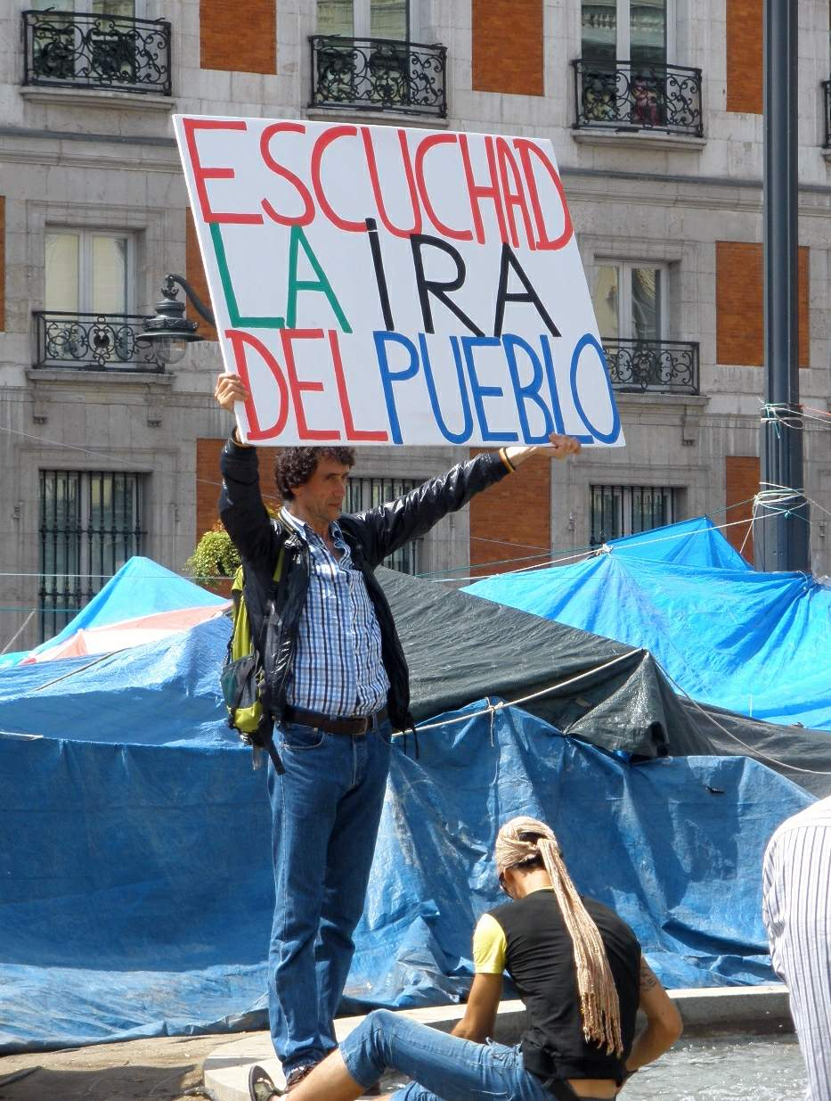 Acampada del Movimiento 15 de Mayo en Puerta del Sol, Madrid. Imagen tomada el 29 de mayo de 2011